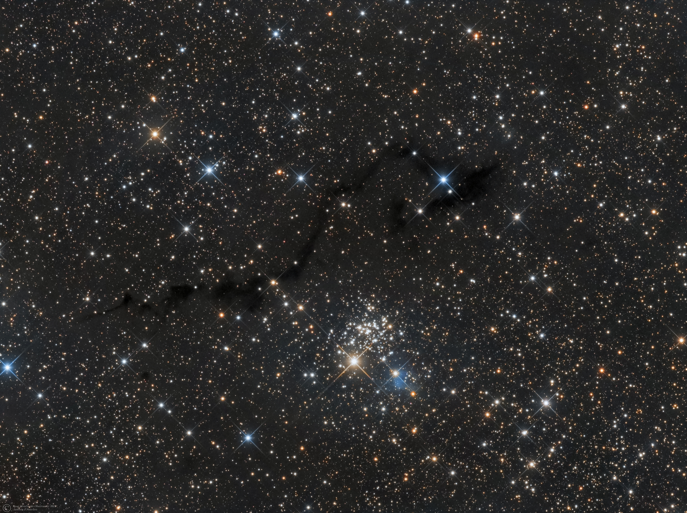 NGC 654,VdB6,LDN 1332,1334,1337 (Cassiopeia) * August-September 2014 * ASA N12 astrograph (f/3.6,1078mm) * DDM85 mount * FLI ML8300 at -25ºC * Optec LRGB filter set * L.520m R:180m G:160m B:210m * Unguided *NGC 654 is a young cluster,with an age of about 14 million years.The cluster`s 80 measured members (7th magnitude and fainter) appear in little clumps scattered across a mere 6´of sky,or 14 lightyears. Astronomers have taken keen interest in NGC 654 because of it displays nonuniform extinction across its face,with stars reddened by about 1 magnitude on average.Color excess indicates the amount of interstellar reddening suffered by the light from the star when it passes through dust in space.Data from Indian Astronomer Biman J. Medhi and colleagues (2008), show evidence for the presence of at least two layers of dust along the line of sight to the cluster, which lies at a distance of about 7800 light-years.The 7th magnitude yellow supergiant star HD 10494 is a likely member of this cluster with a recessional velocity of about 31km/sec.They estimate the distances to the two dust layers to be about 652 and 3300 light-years, placing the clouds much closer to the Sun than the cluster.The foreground dust grains,appear to be responsible,then, for the nonuniform extinction towards the cluster,whose least reddened stars lie close to the cluster center.VdB 6 is a little reflection nebula. The star wrapped in vdB 6 is listed as HIP 8074 of magnitude 9.66, located in the Perseus arm, which gives the nebula a distinctly bluish color.Credits: Stephen James O´Meara"Deep-Sky Companions:The Secret Deep, Vol 4"Italian Wikipedia